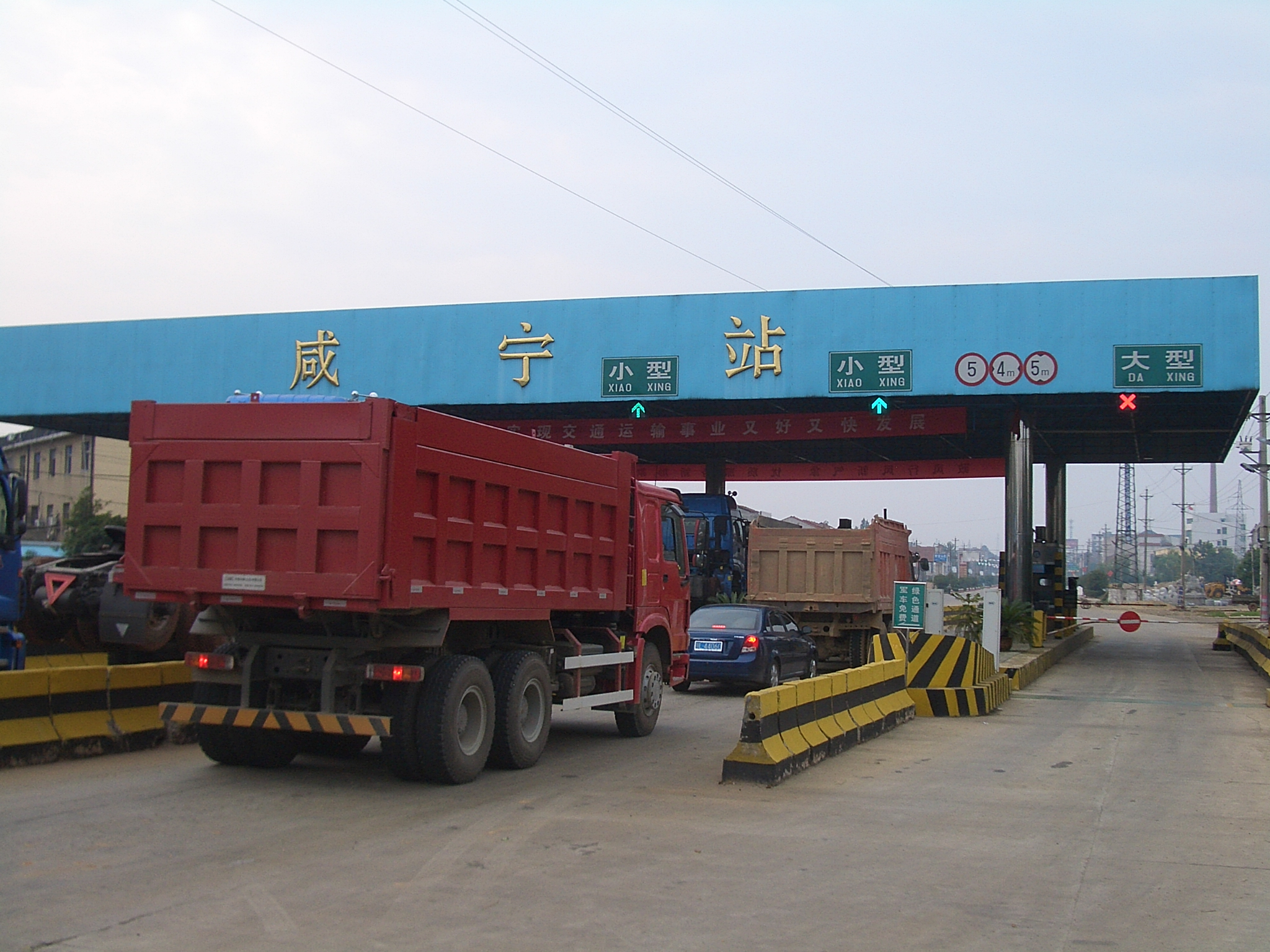 Toll gate on National Highway 107 (G107) near central Xianning.